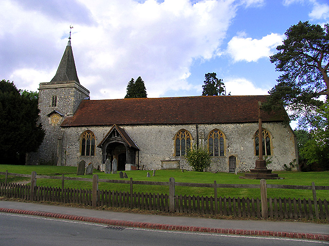 Church of England parish church of Saints Peter and Paul, Yattendon, Berkshire: view from the south